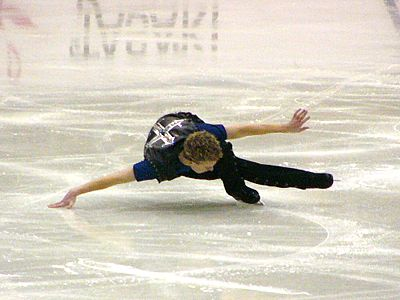 Timothy Goebel during the exhibition at the 2003 NHK Trophy.